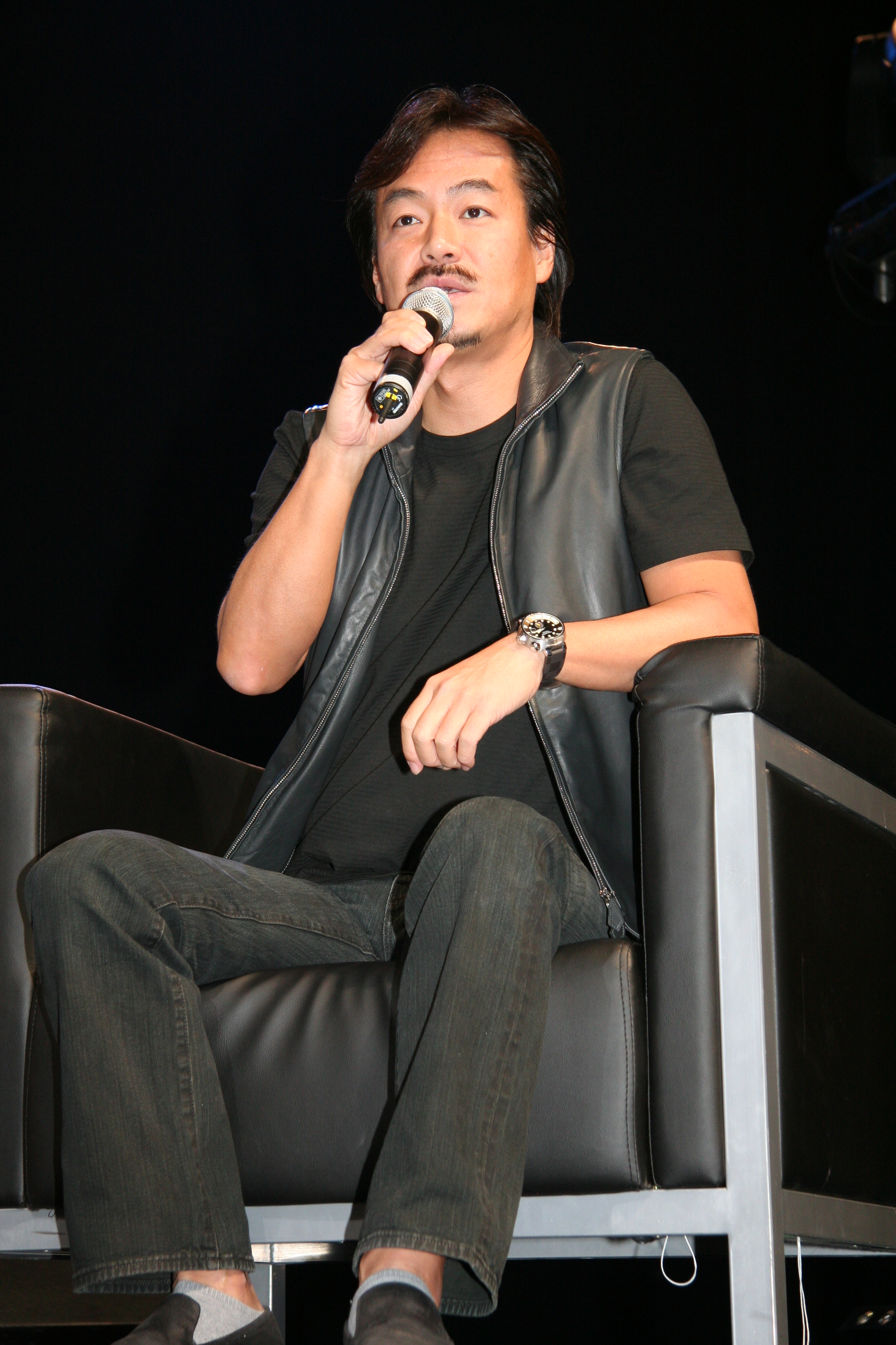 Conference with Hironobu Sakaguchi at Japan Expo 2007 (Paris, France).